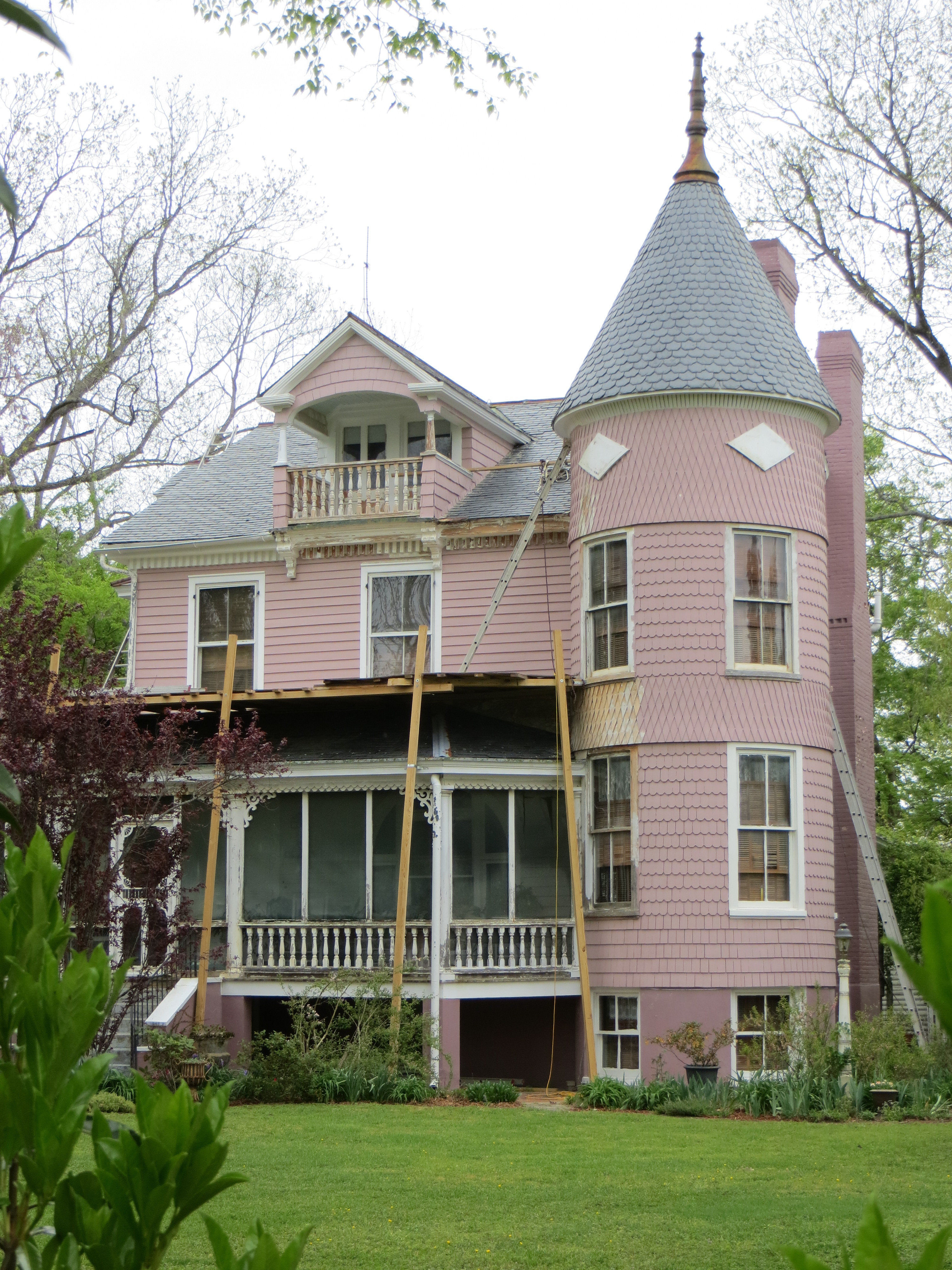 Godwin-Knight House, 140 Kings Highway, Suffolk, Virginia